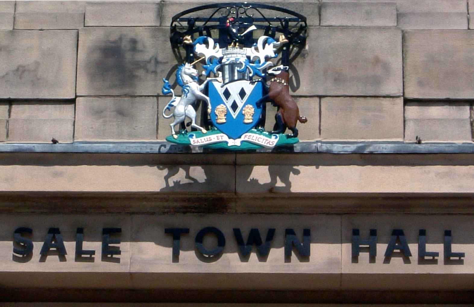 The coat of arms of Sale Borough Council above the main entrance to Sale Town Hall.